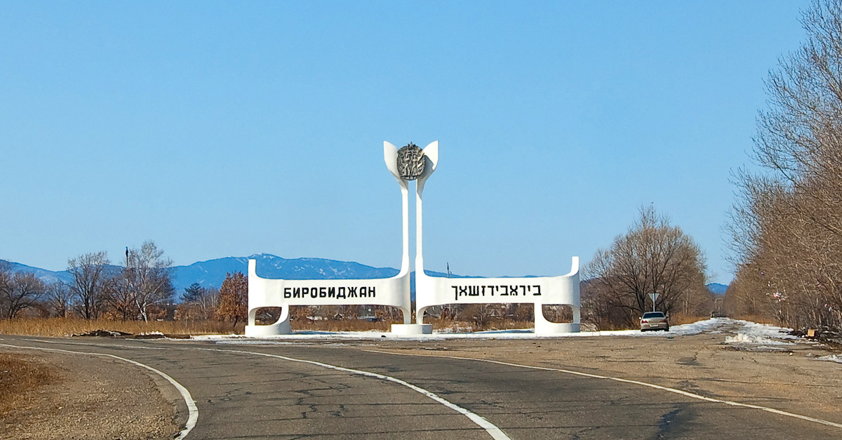 Pointer to entry in Birobidzhan, Jewish Autonomous Oblast, Far Eastern Federal District, Russia.